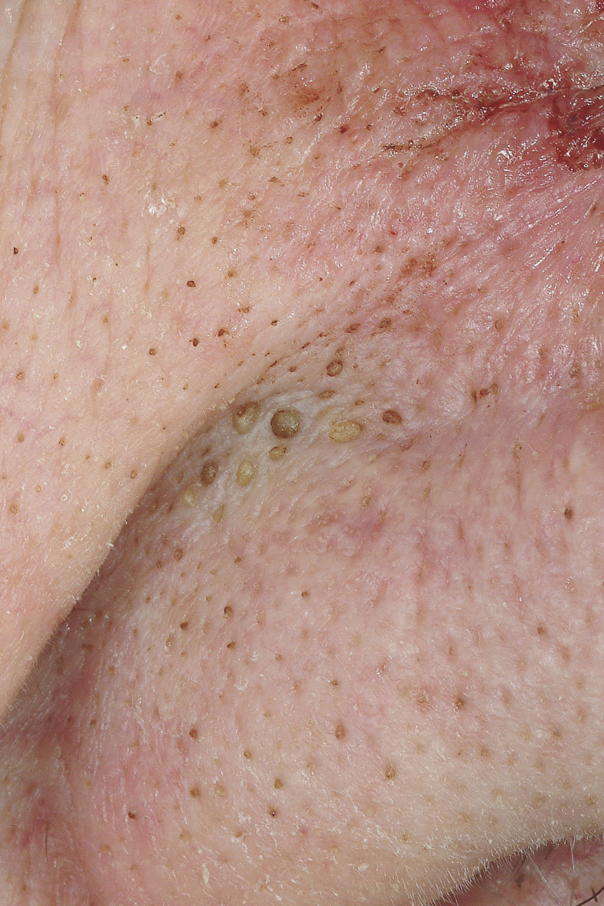 Multiple closed comedos at the nasolabial fold and the alar of the nose.